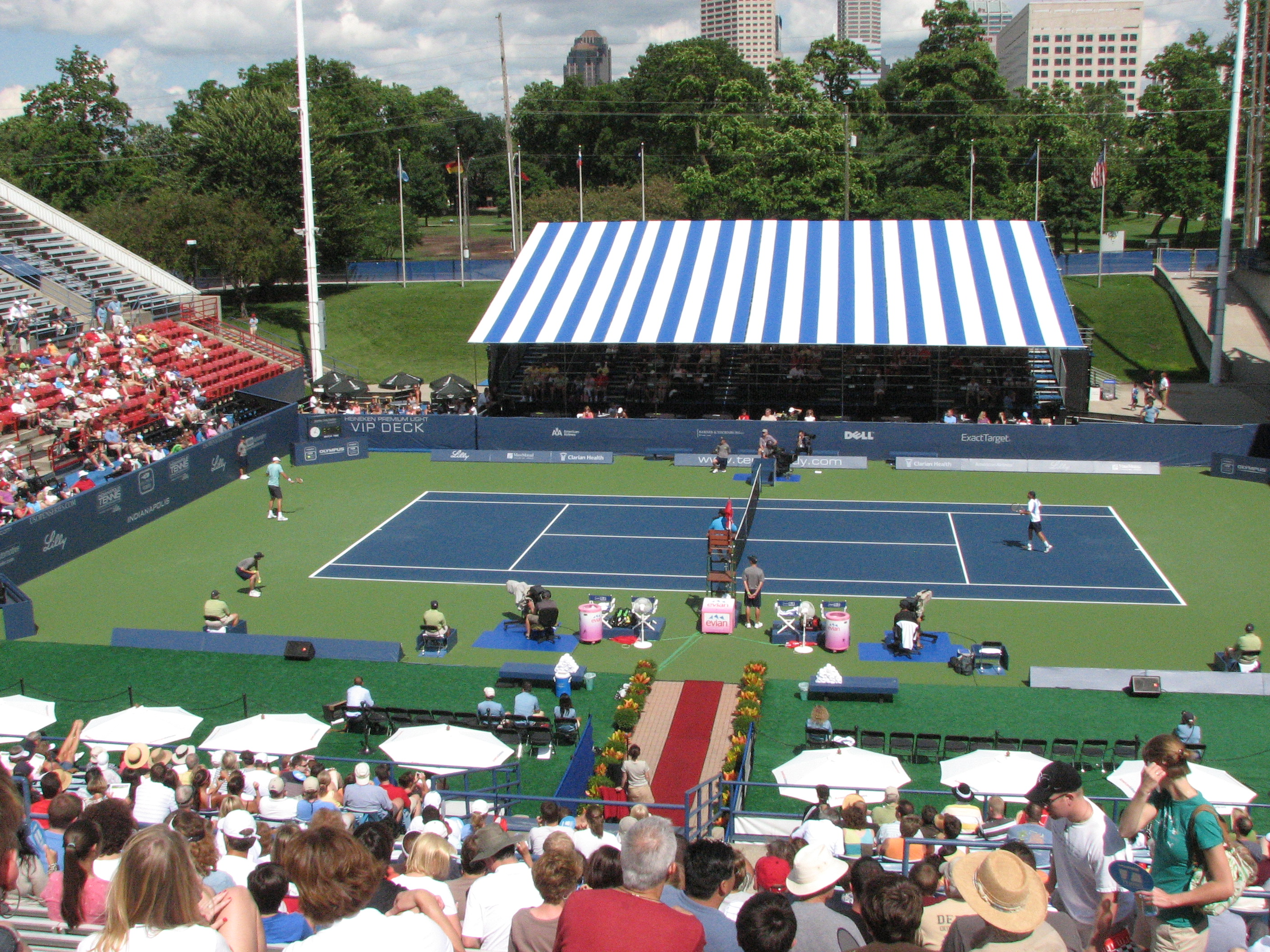 John Isner (right) against Robby Ginepri (left) during the 2009 Indianapolis Tennis Championships semifinals